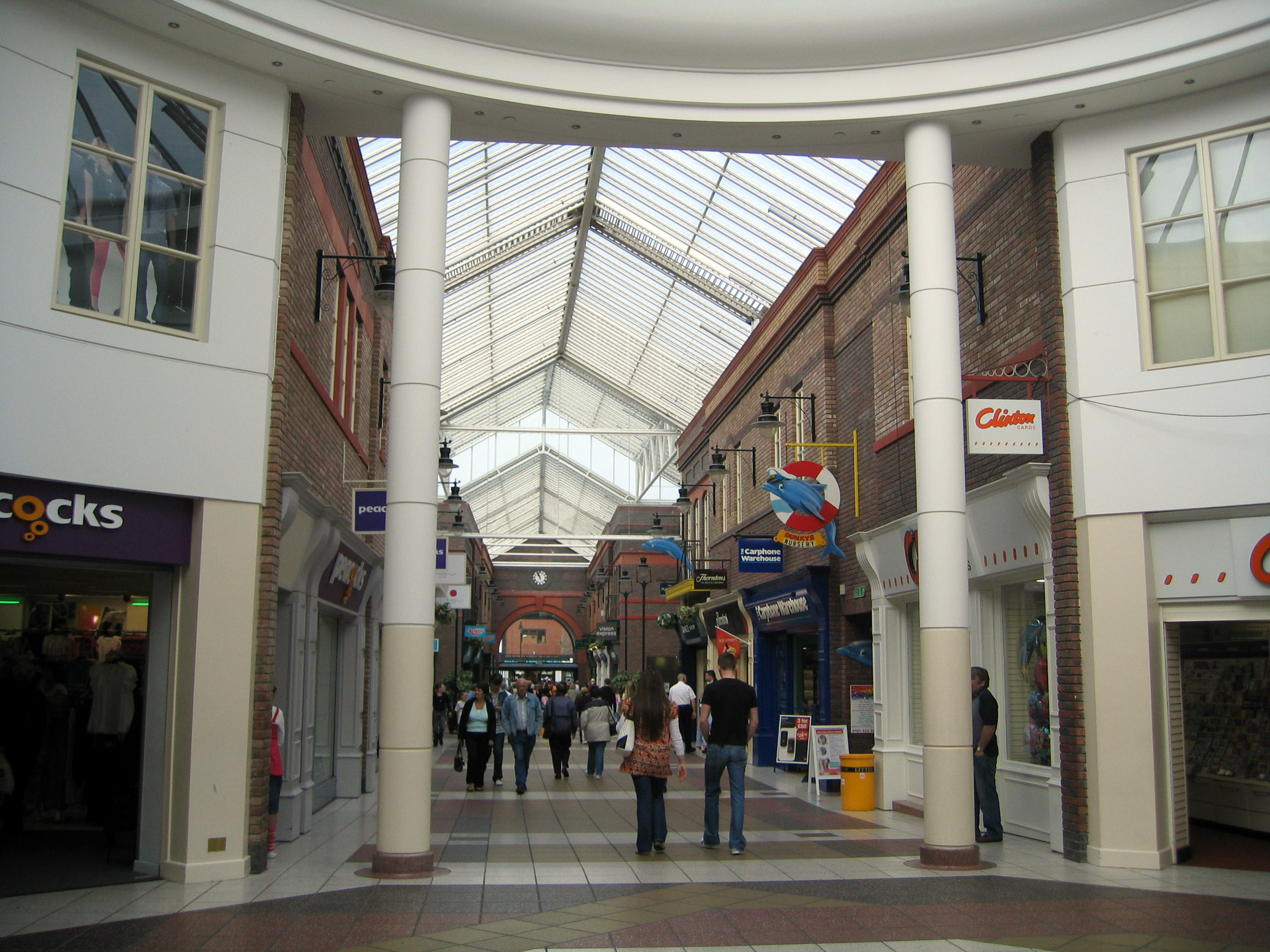 Greenoaks Shopping Centre, Widnes